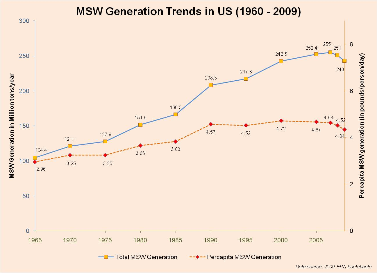 Data from EPA 2009 Factsheets